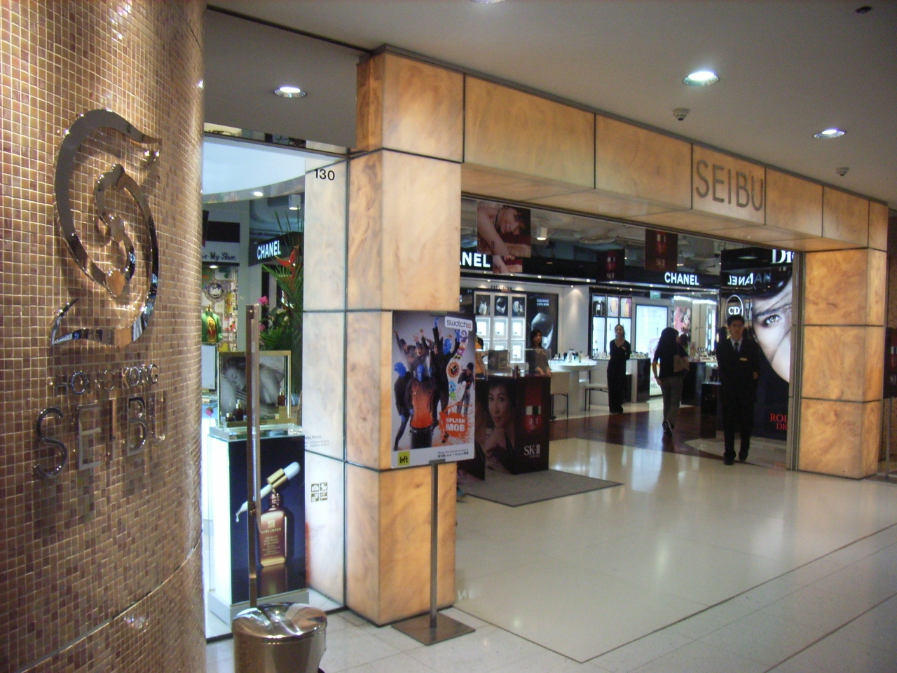 By WARKOTSM - SEIBU Department Store in Pacific Place, Hong Kong.